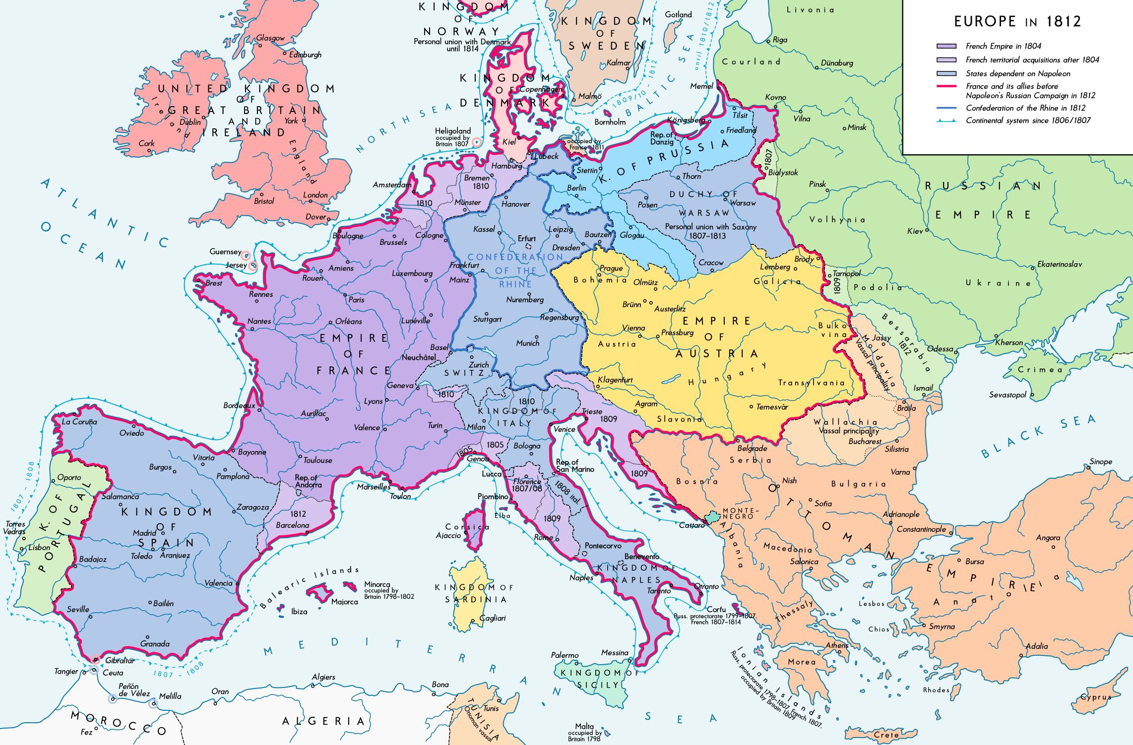 Europe in 1812. Political situation before Napoleon's Russian Campaign.